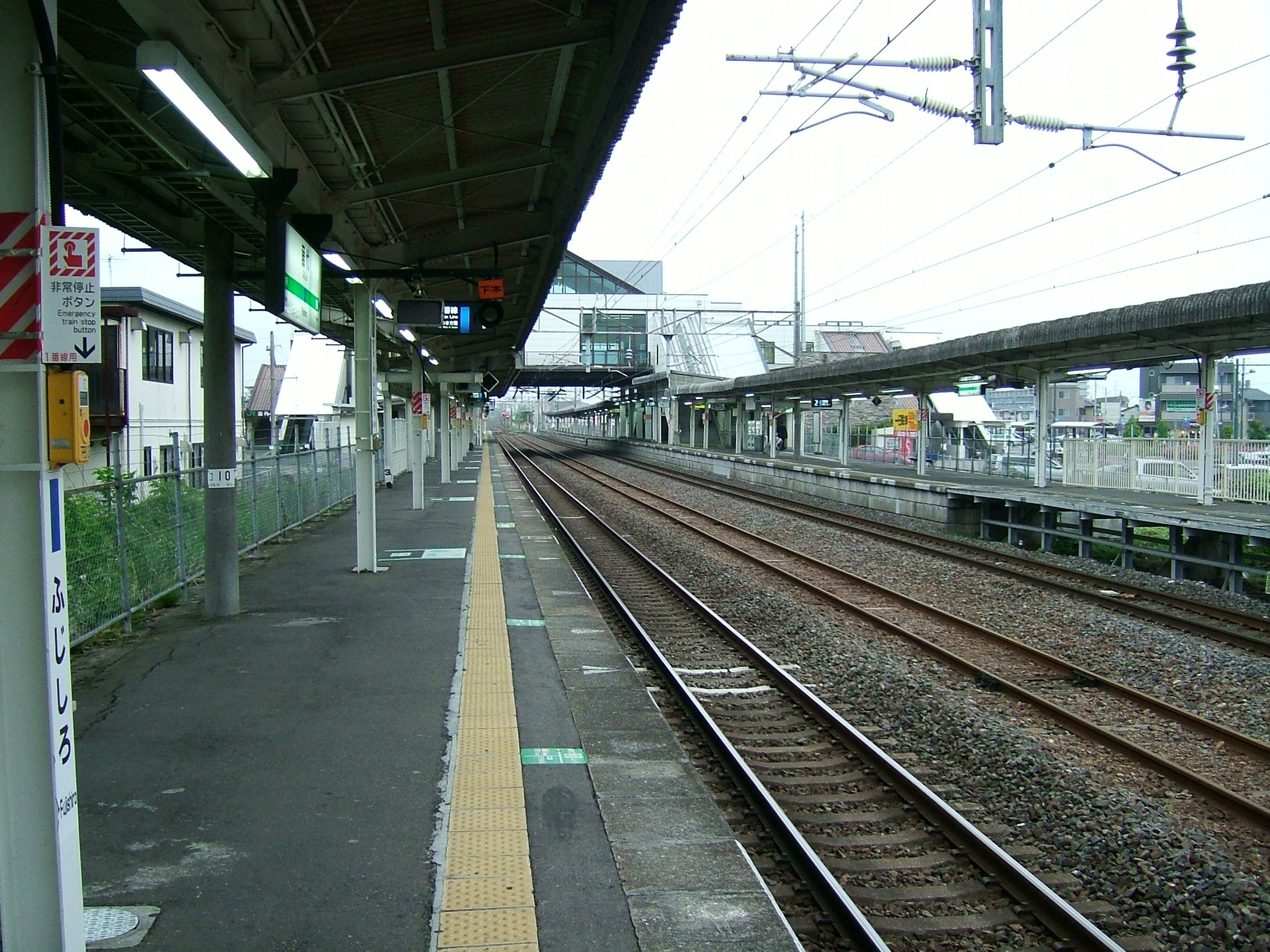 Fujishiro Station platform (East Japan Railway Jōban Line)